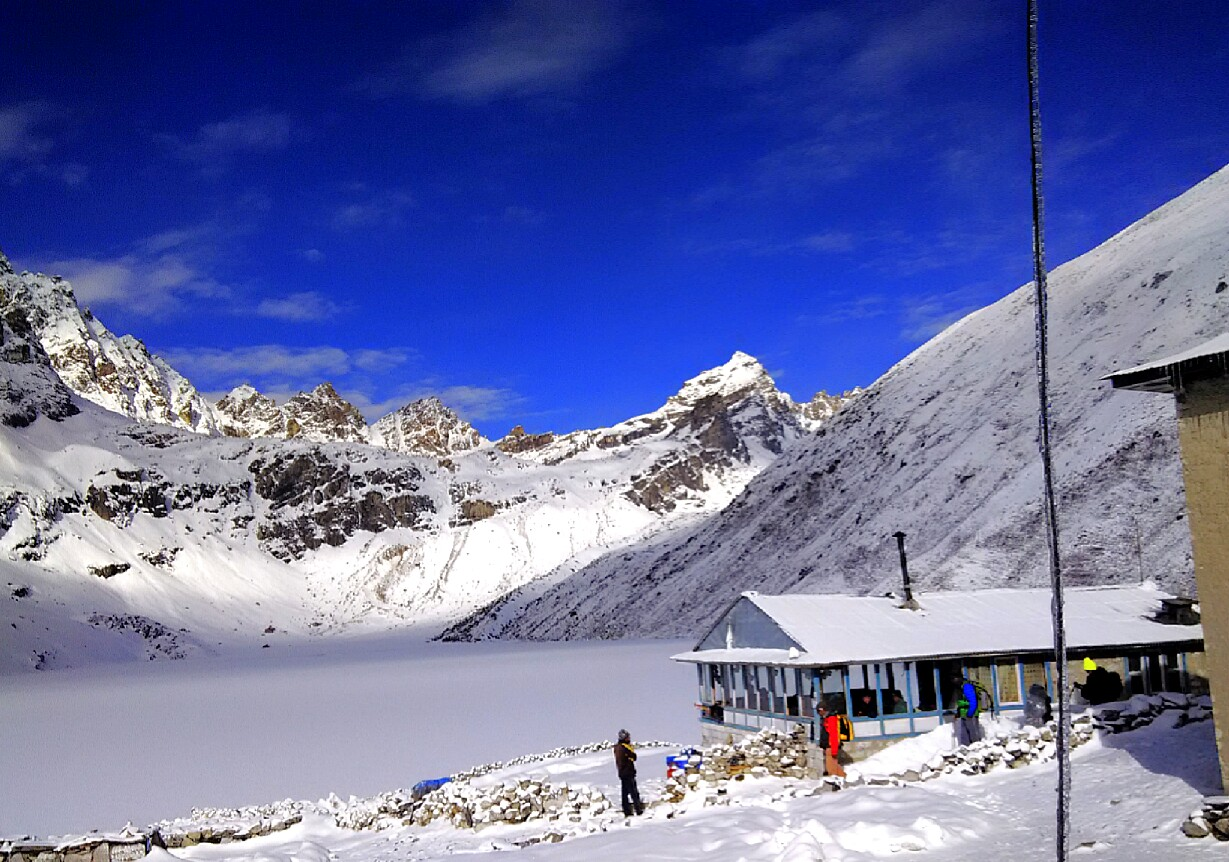 Gokyo lake trekis very famous in Nepal. There are five lakes.Third lake is near Gokyo settlement.